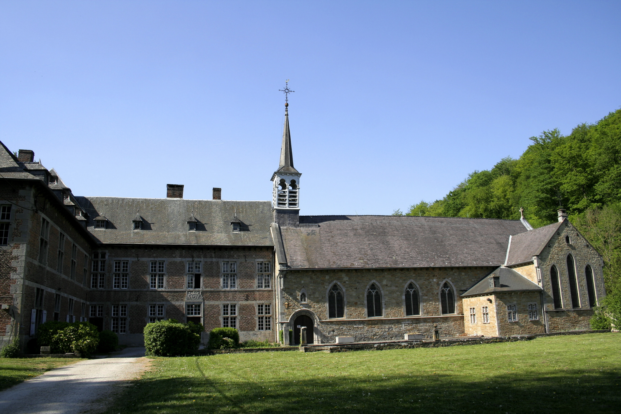 Marche-les-Dames (Belgium), the main buildings and the abbey church of the Notre-Dame du Vivier abbey (XVIIIth century).